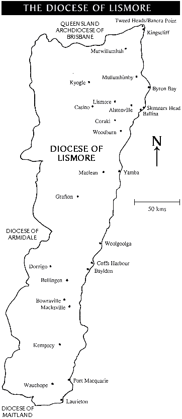 Map of Lismore Diocese.